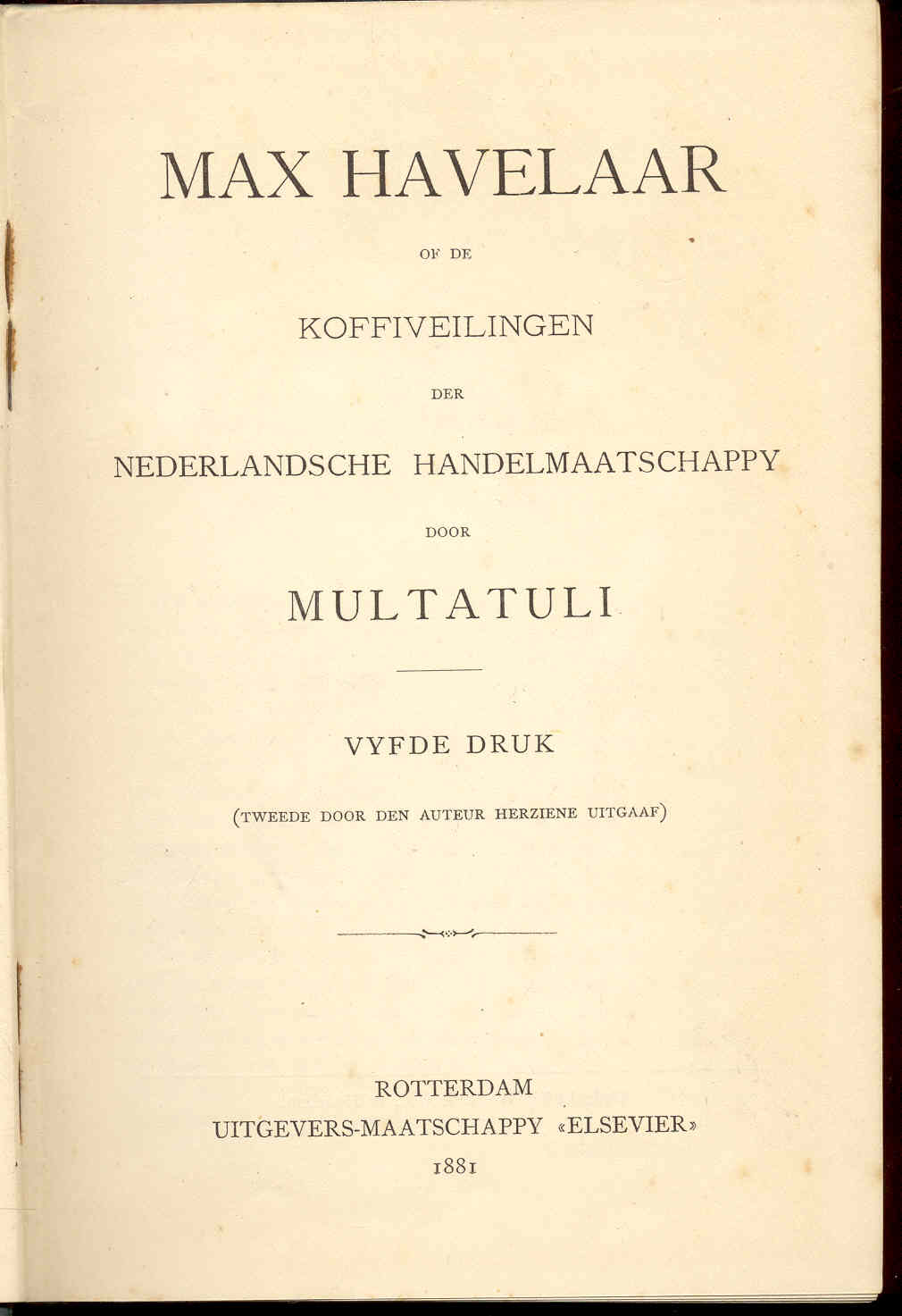 title-page fifth edition Max Havelaar, last edition corrected by the author Multatuli, G.L. Funke, Amsterdam, 1881